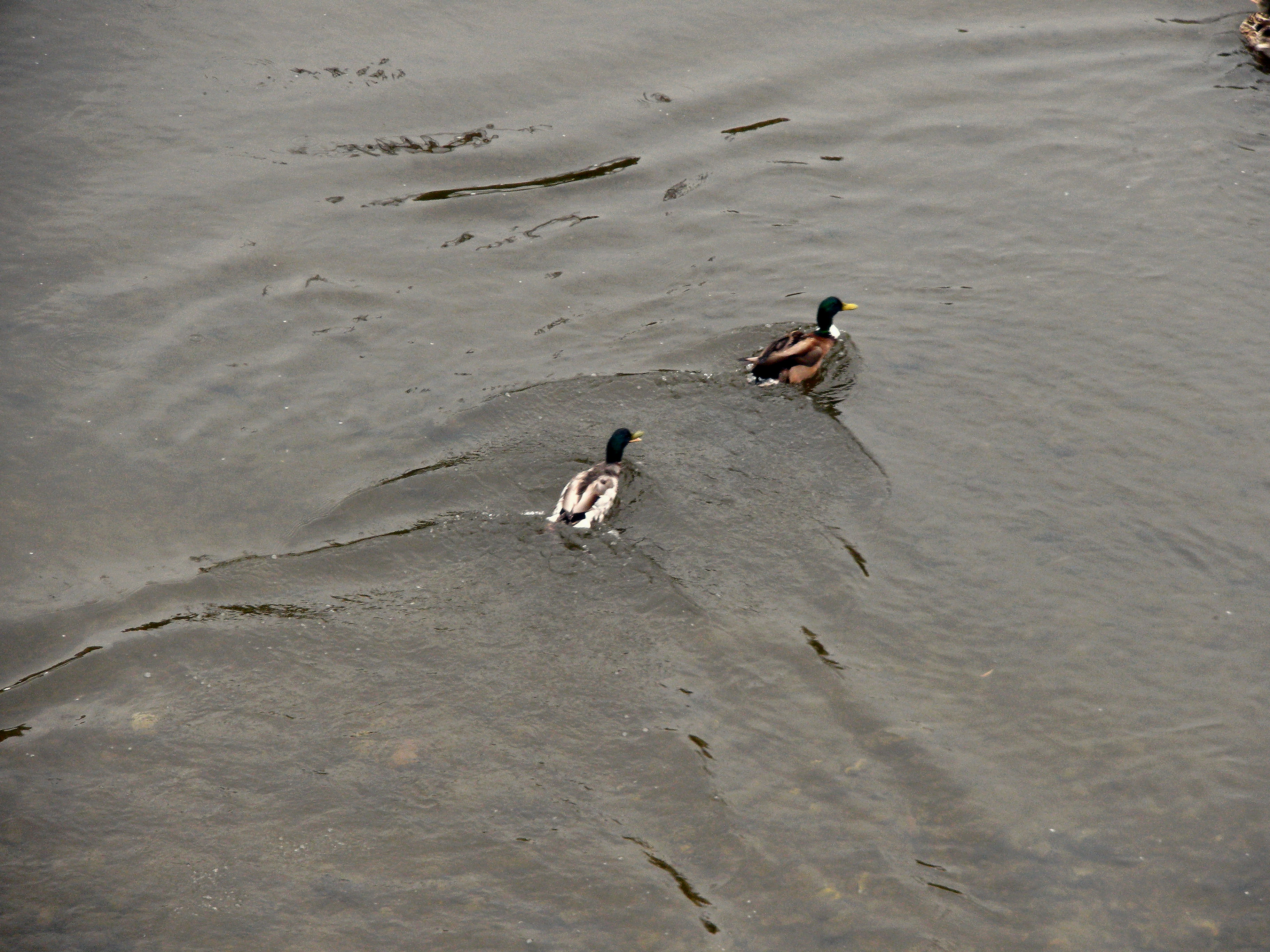 Genoa (Italy), mallards in the river Polcevera